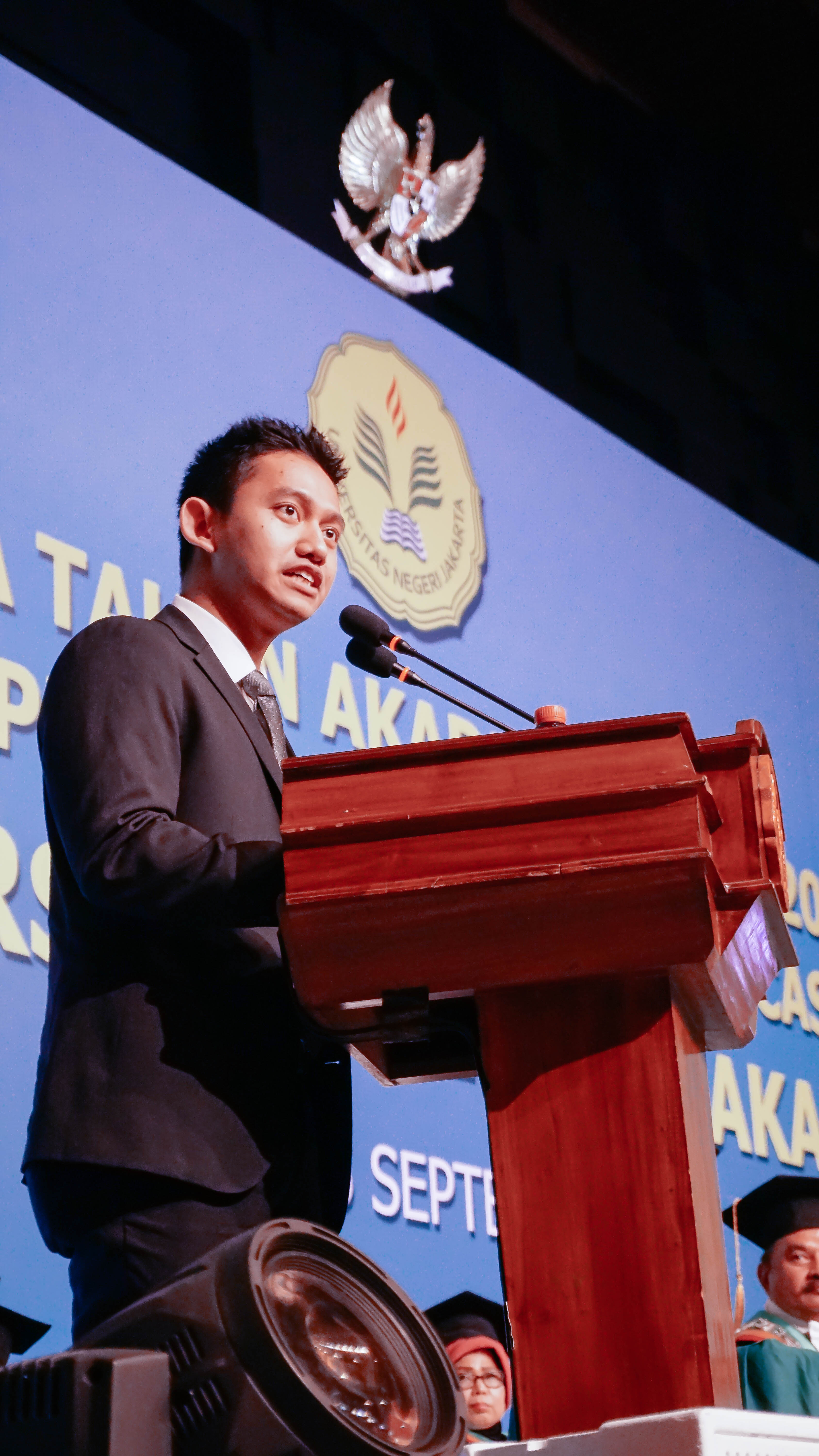 Belva Devara, Orasi Ilmiah Wisuda UNJ